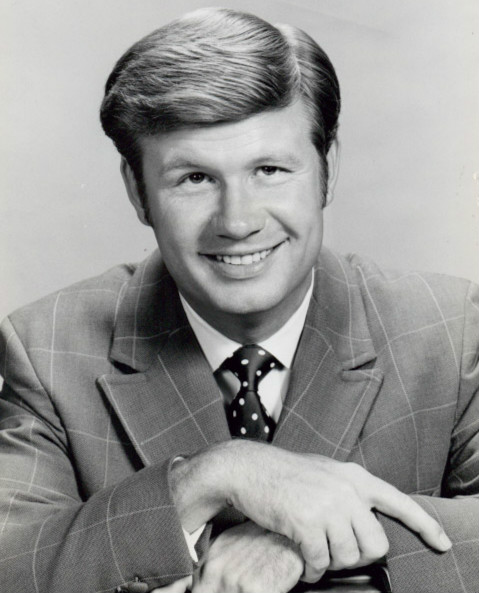 Publicity photo of James Hampton from The Doris Day Show, 1968.